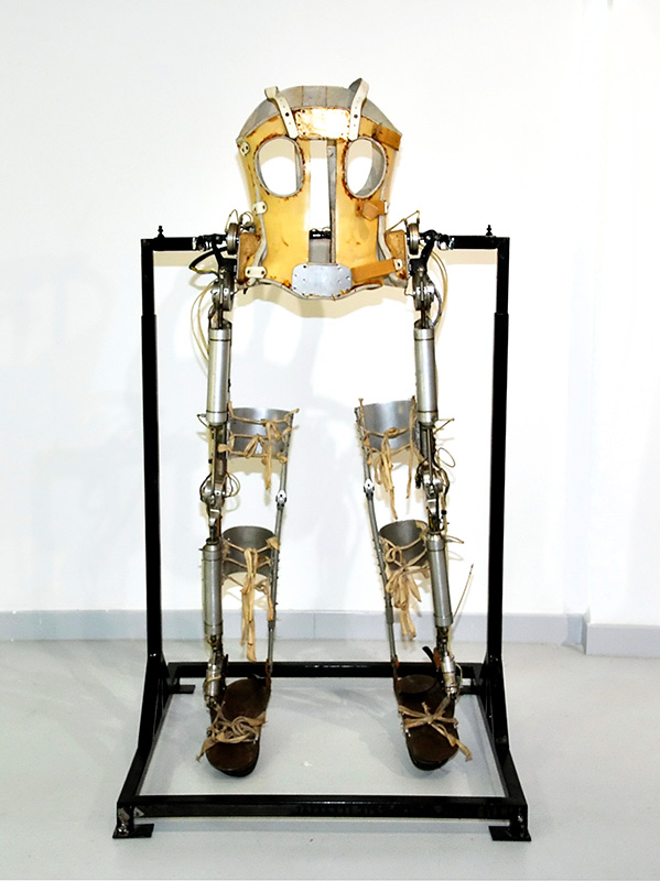 Active Exoskeleton made in 1972. at "Mihajlo Pupin" Institute in Belgrade